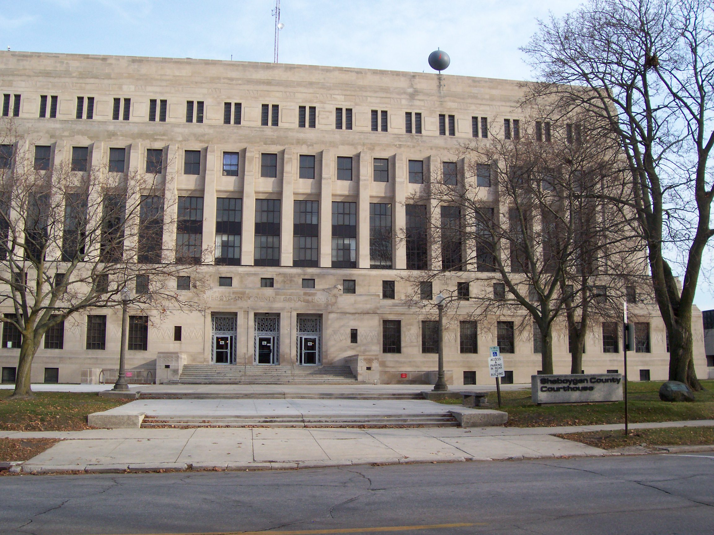 The Sheboygan County courthouse in Sheboygan, Wisconsin, USA.